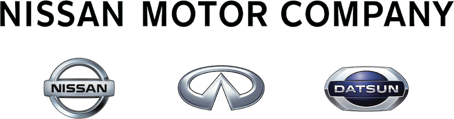 New Nissan Corporation Logo